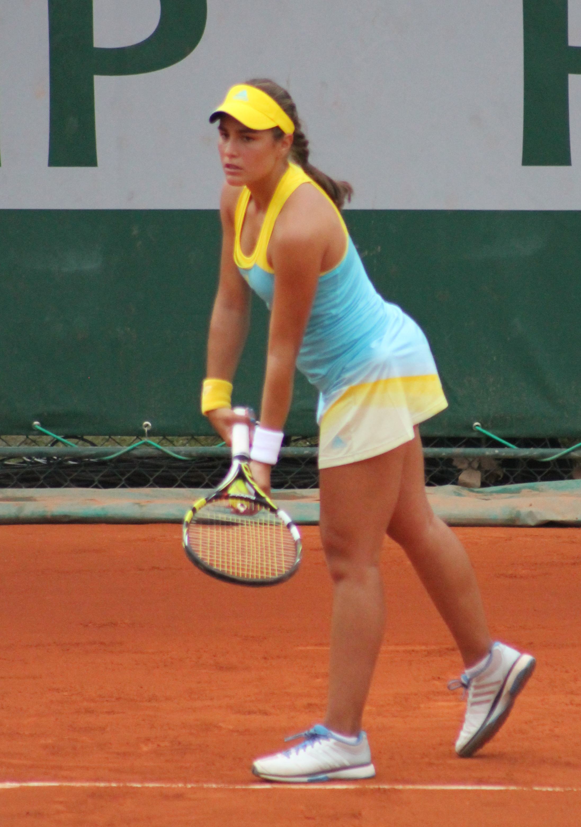 ´Monica Puig playing in the first round of the Ladies Singles at Roland Garros, Court 7, on 29 May 2013; opponent was Madison Keys (USA)